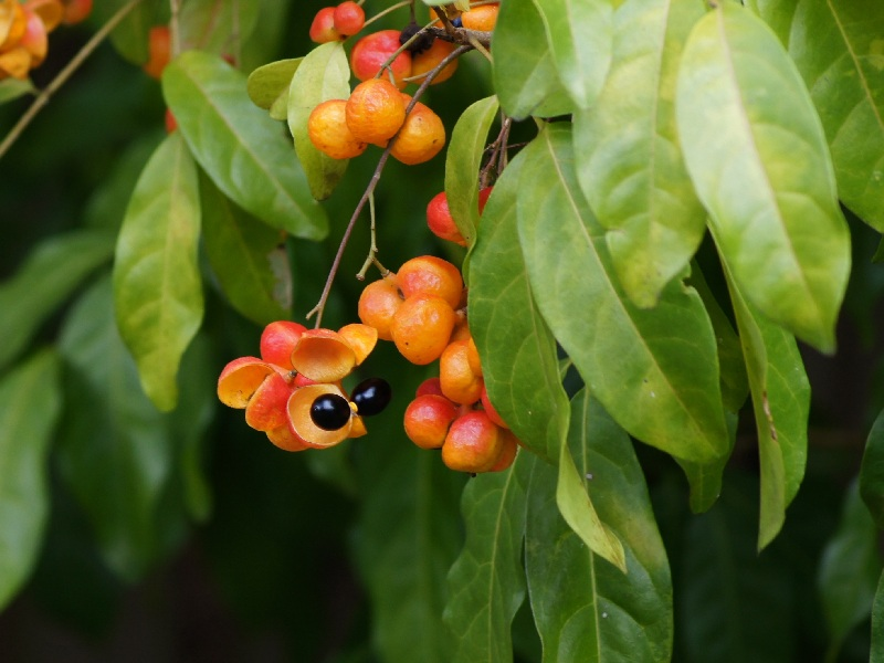 Popular small tree in the Brisbane’s streets - Harpullia pendula (Sapindaceae family), or Tulip wood. :*Tree is nicely shaped (habit), and it has a glossy black seed inside of the orange shell. The tree is endemic to Australia. I believe they are very "photogenic" - see more photos of it in my photostream (slideshow)